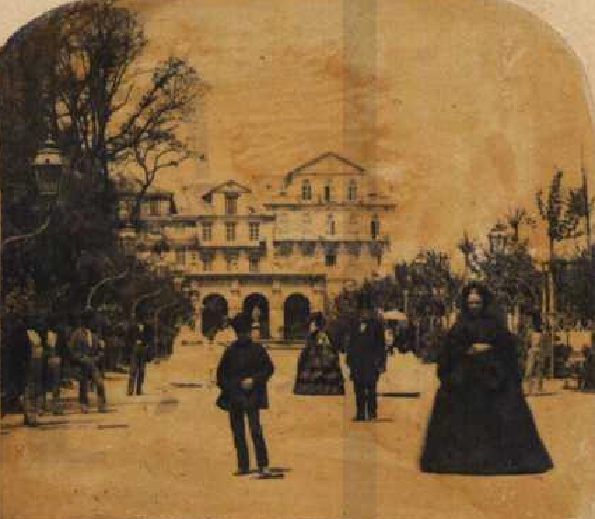 The Passeio Público" ("Public Promenade"), in Lisbon. This garden area was demolished in 1879.